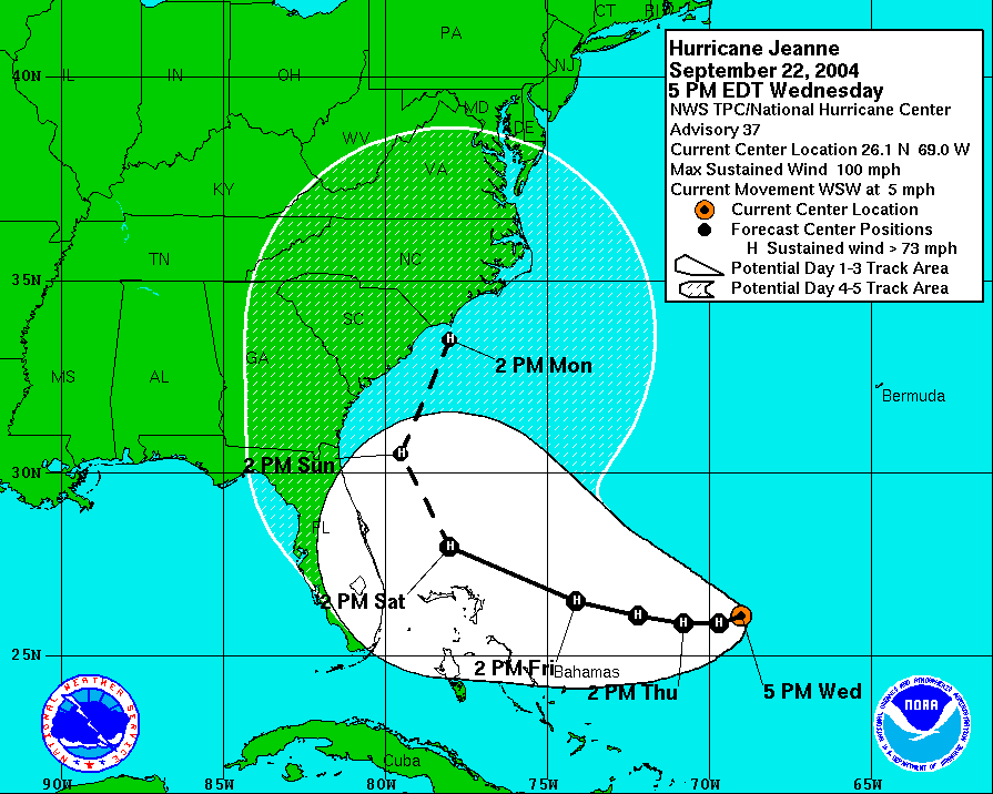 Forecast map for Hurricane Jeanne on September 22, 2004